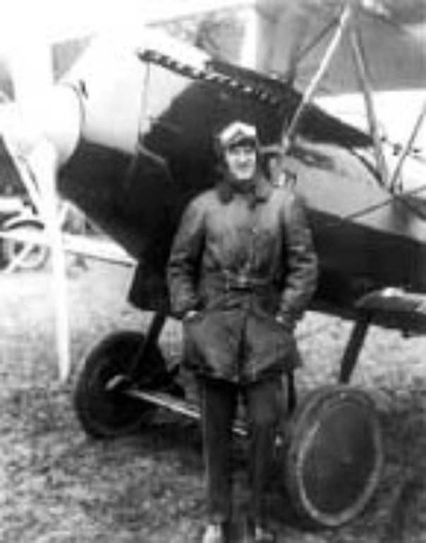 Portrait of Walter Hershel Beech